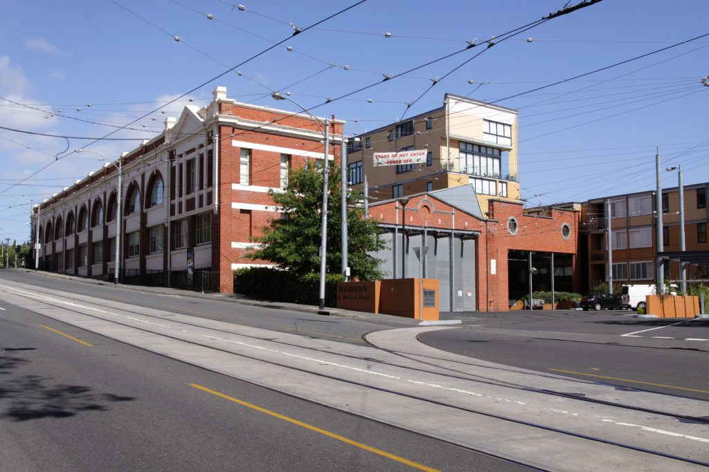 Wallen Road frontage to the former Hawthorn tram depot, Melbourne. Buildings converted into apartments, with one tram shed retained as a tramway museum..